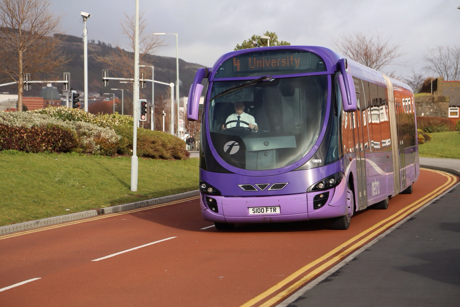 Wright StreetCar operating an FTR route in Swansea in February 2014.